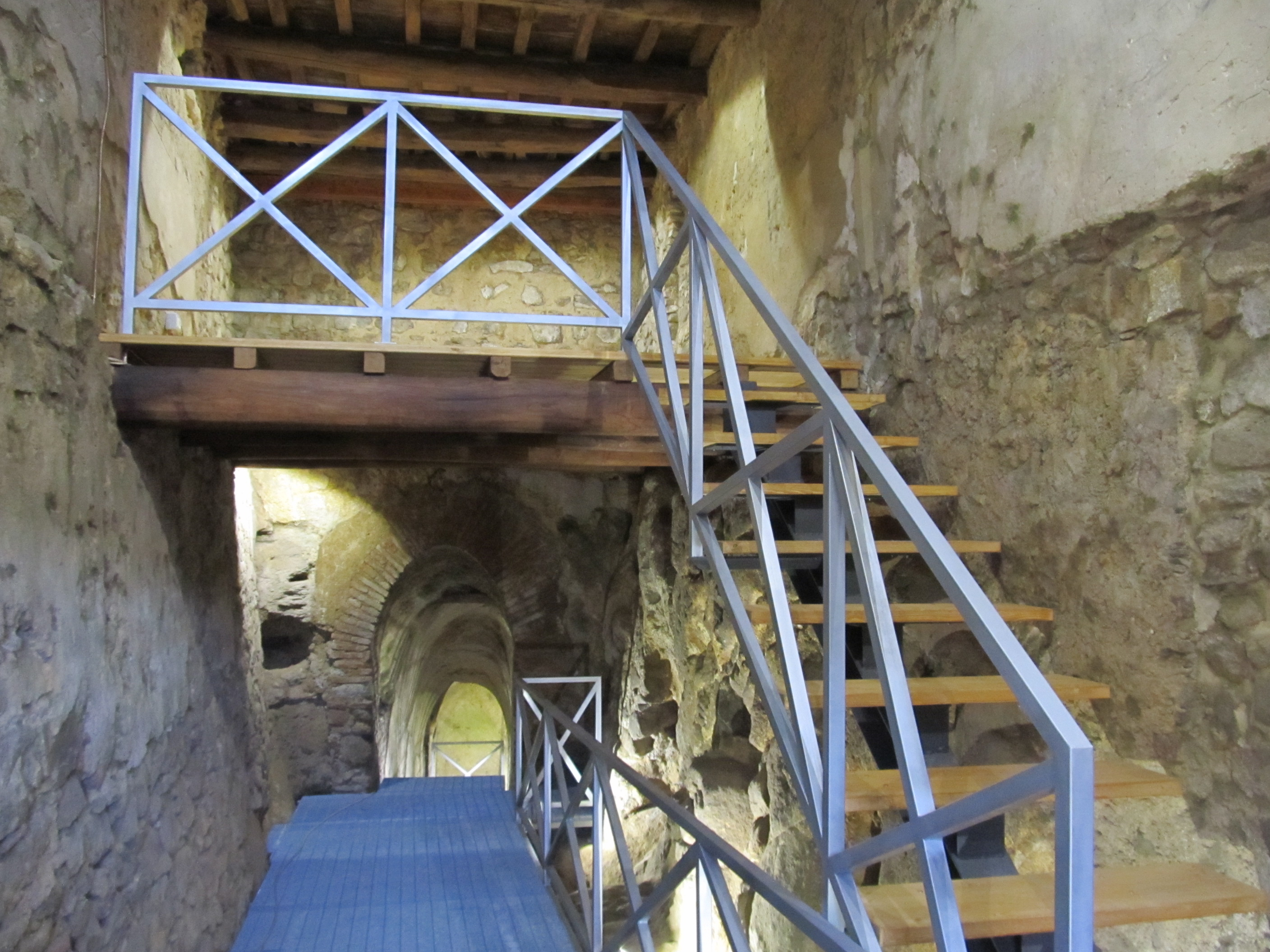 elba island